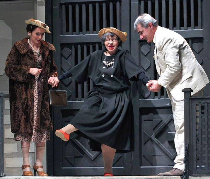 A photo of the Bulgarian actress Stoyanka Mutafova, 2015